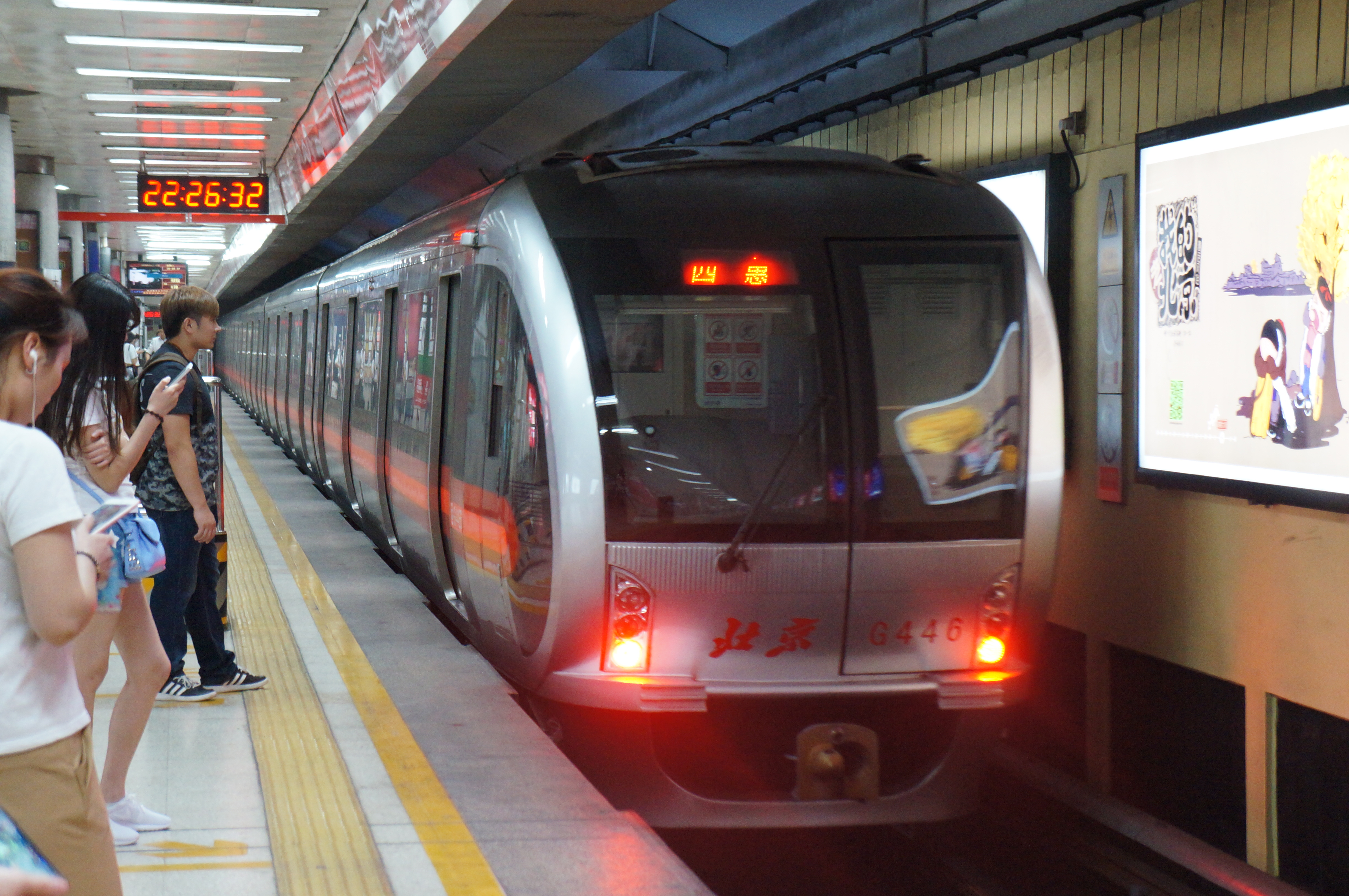 201606 A SFM04 EMU leaves from Dawanglu Station